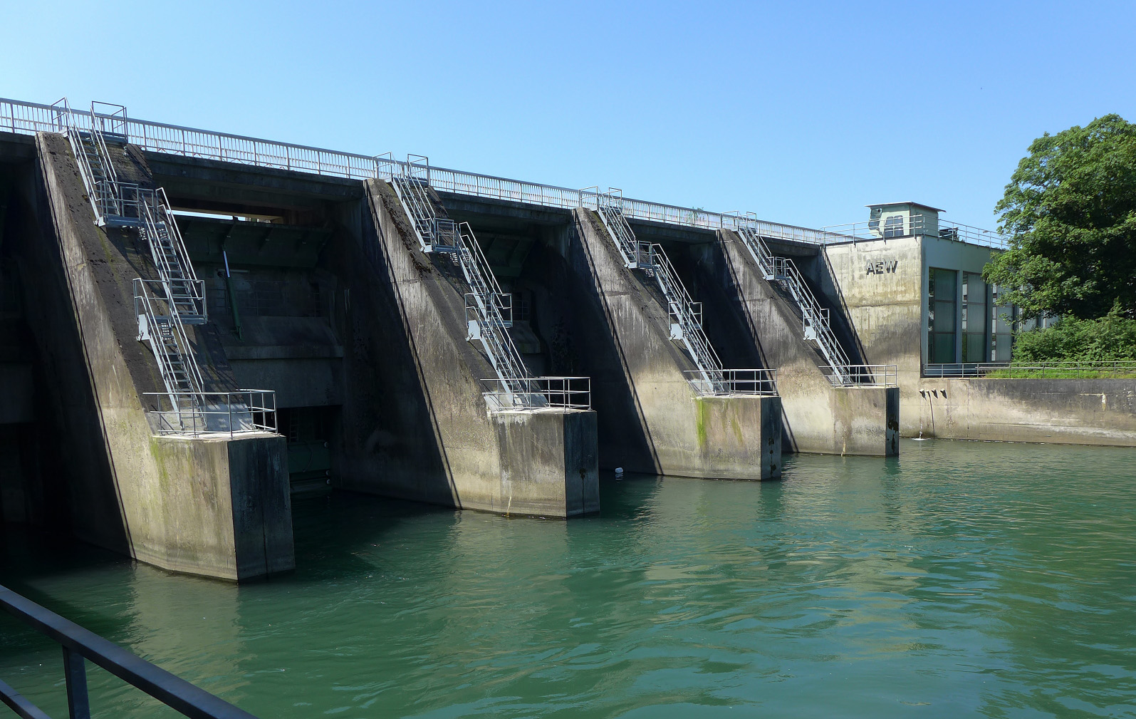 Hydroelectric power plant